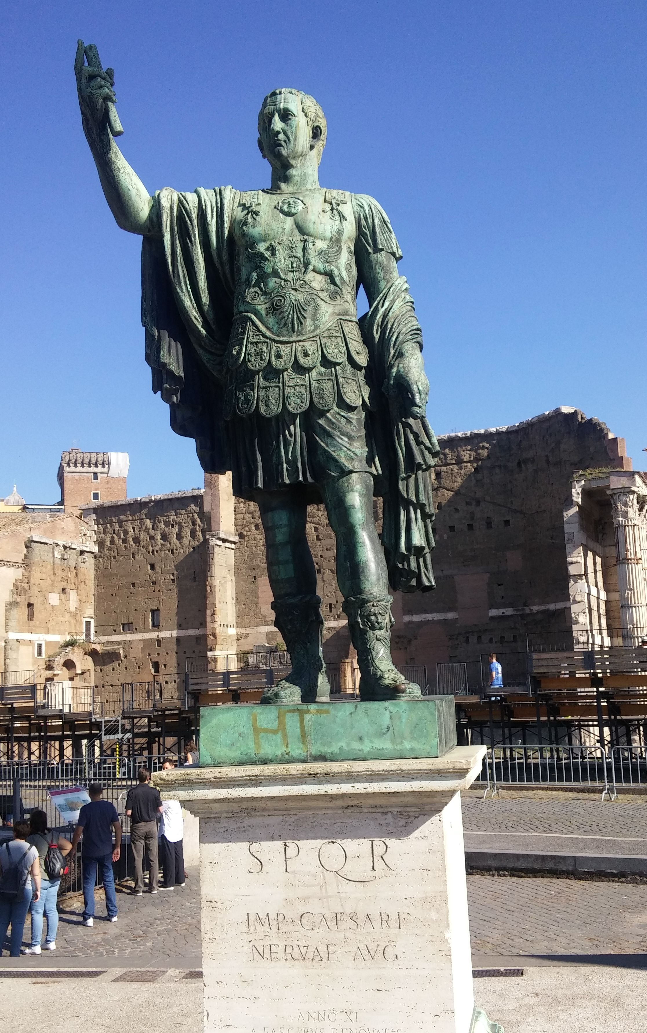 Imperator Caesar Nerva Traianus Statue - was Roman emperor from 98 to 117. Officially declared by the Senate optimus princeps ("the best ruler"), Trajan is remembered as a successful soldier-emperor who presided over the greatest military expansion in Roman history, Rome, Italy.